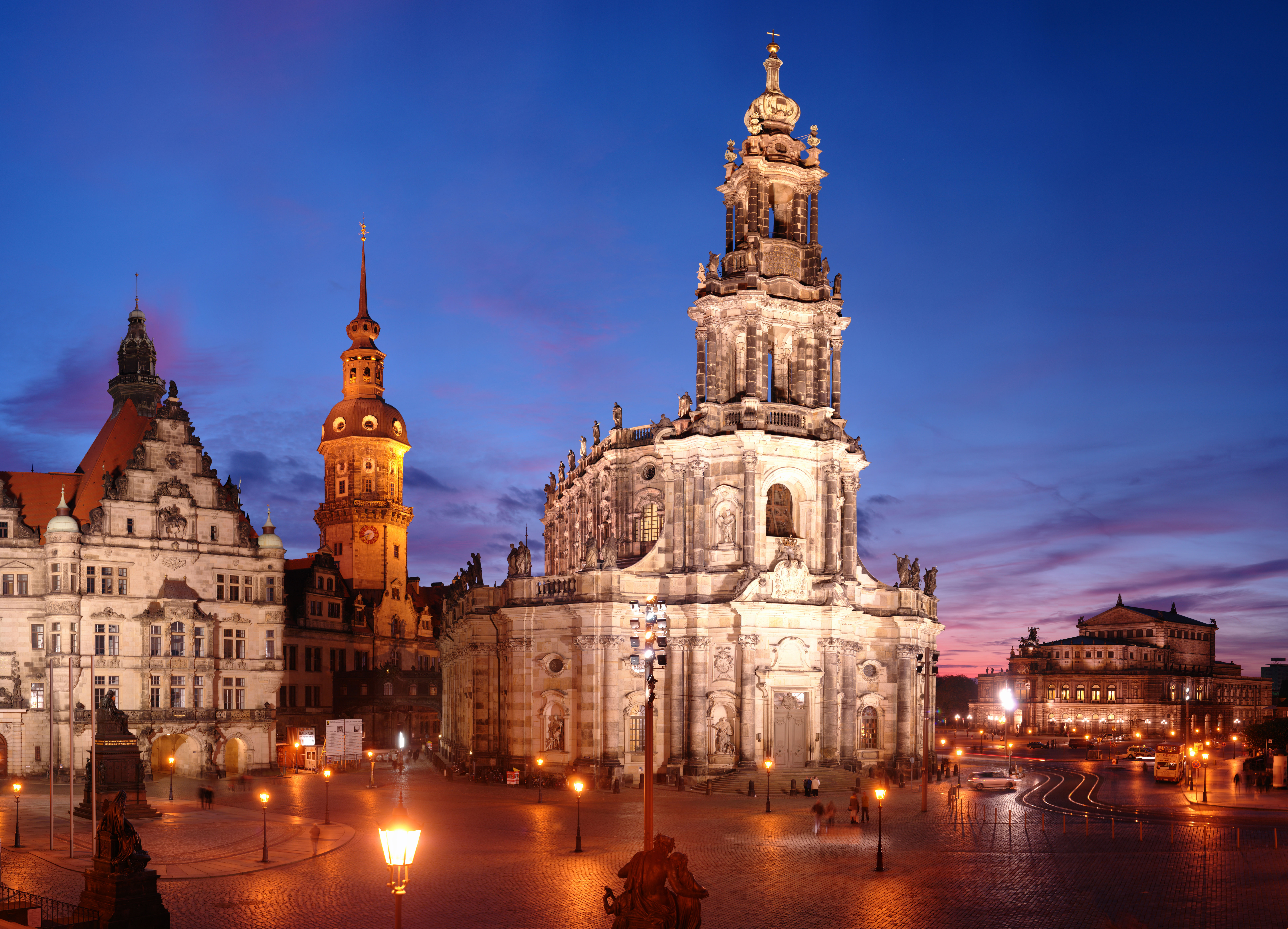 View form Brühl's Terrace to Hofkirche in Dresden, Germany Stiching of 49 images by gigapan system. The resolution is reduced to a quarter. Camera: Sony DSC R1